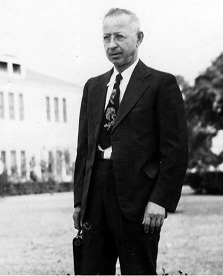 V.T.Houteff standing in front of the administration building circa approx.1950